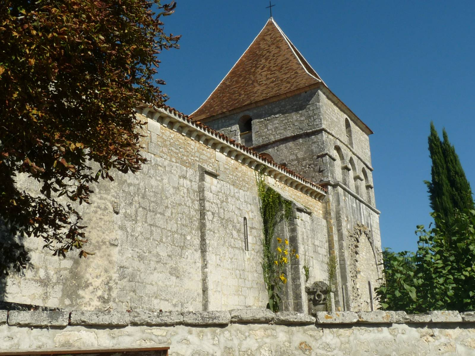 church of Les Graulges, Dordogne, SW France Object location45° 29′ 44.4″ N, 0° 26′ 28.3″ E